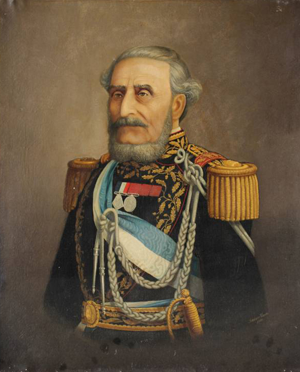 Portrait of Juan Esteban Pedernera (1796-1886), interim president of Argentina.